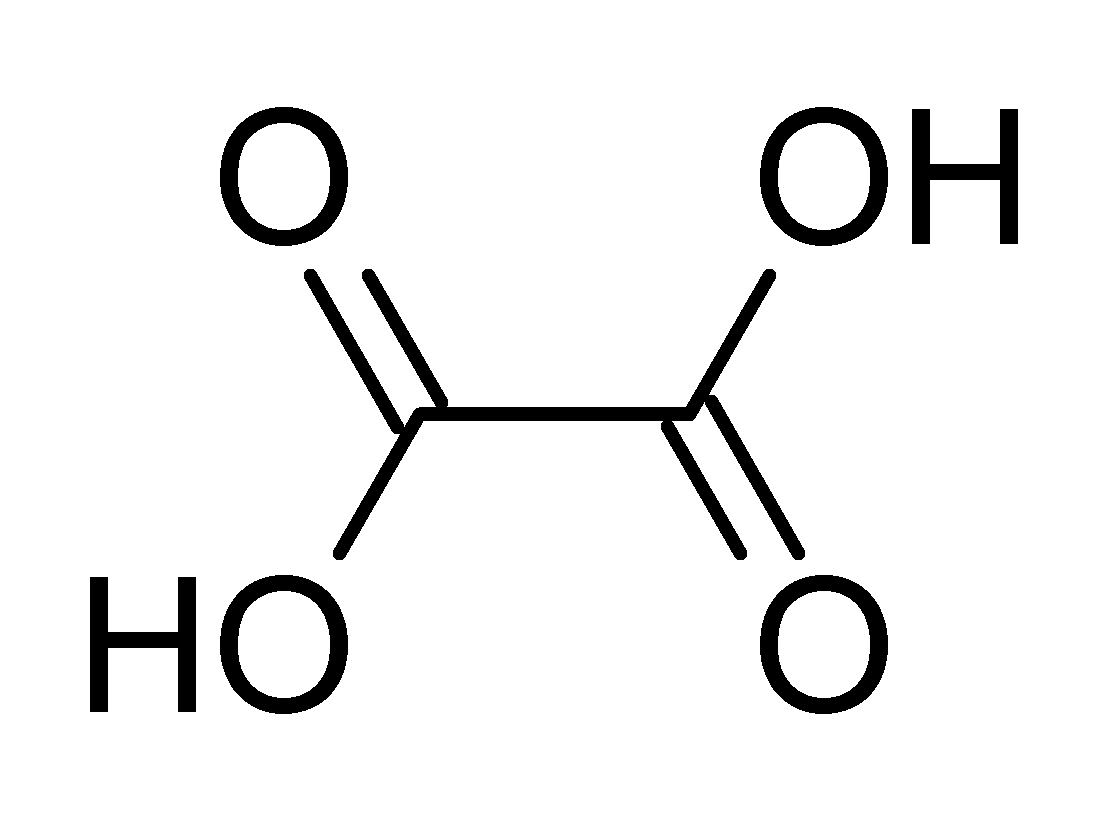 Structure of the oxalic acid.